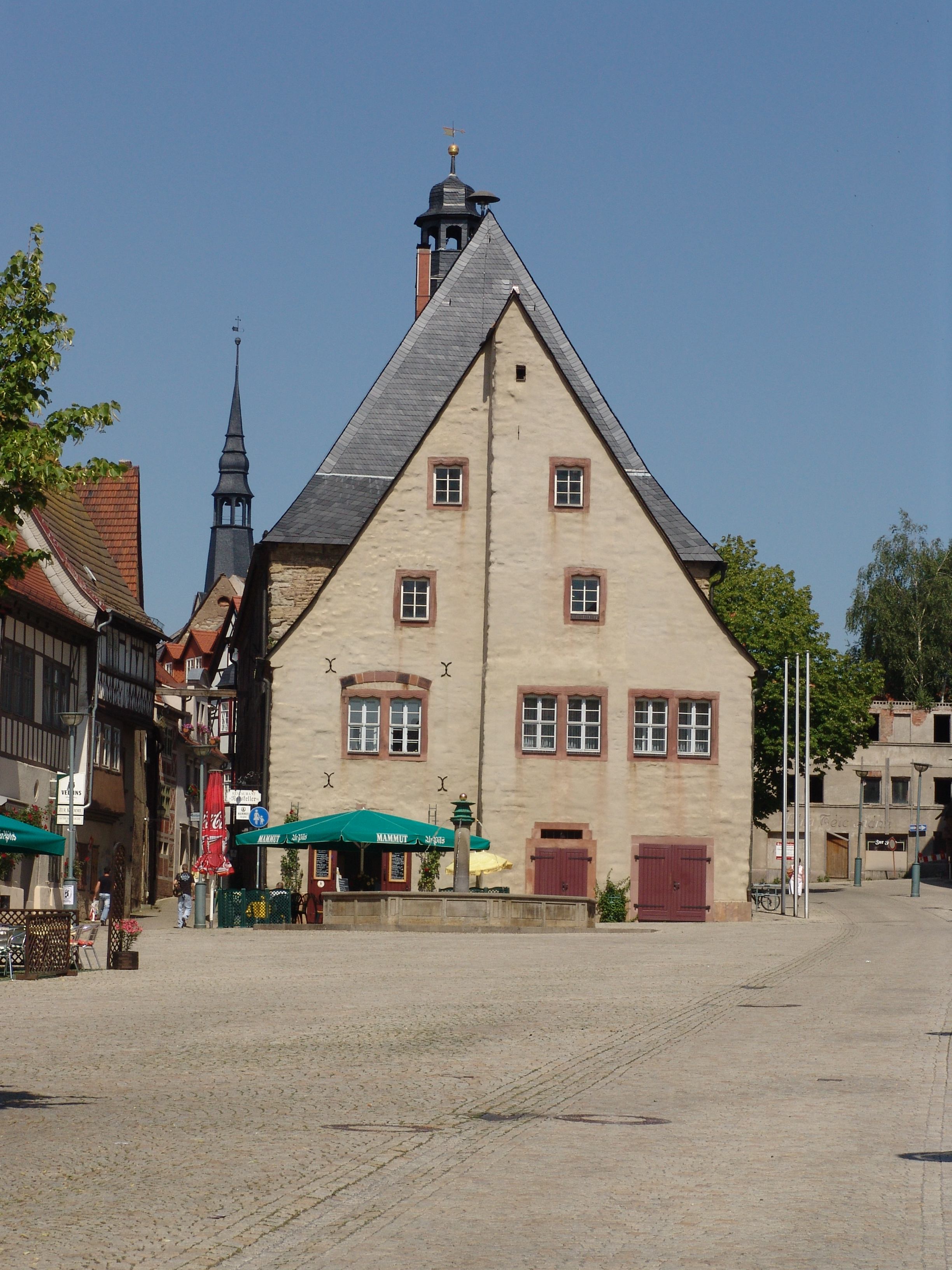 Sangerhausen town hall